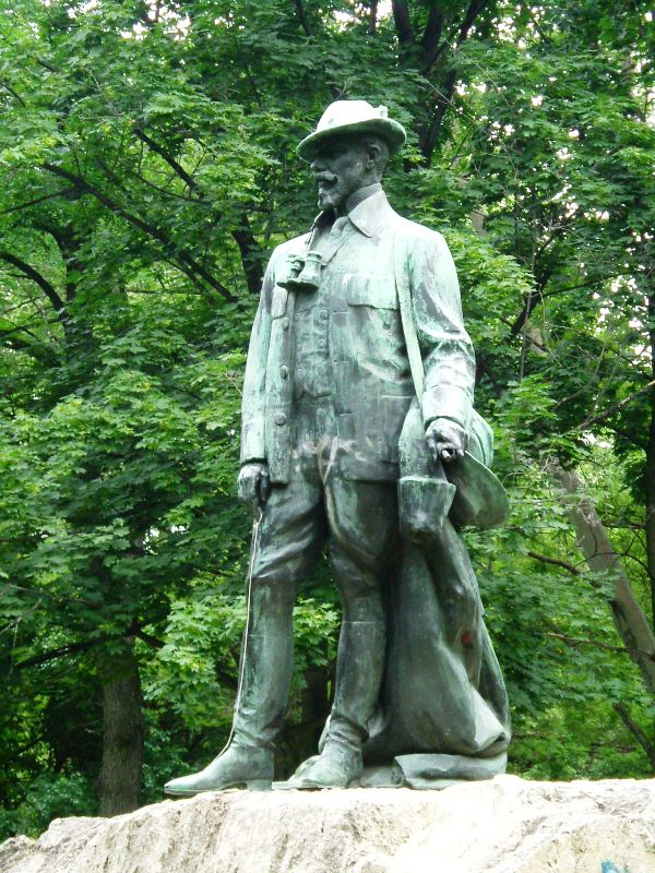 Miklós Ligeti: Statue of Rudolf, Crown Prince of Austria in City Park (Budapest)